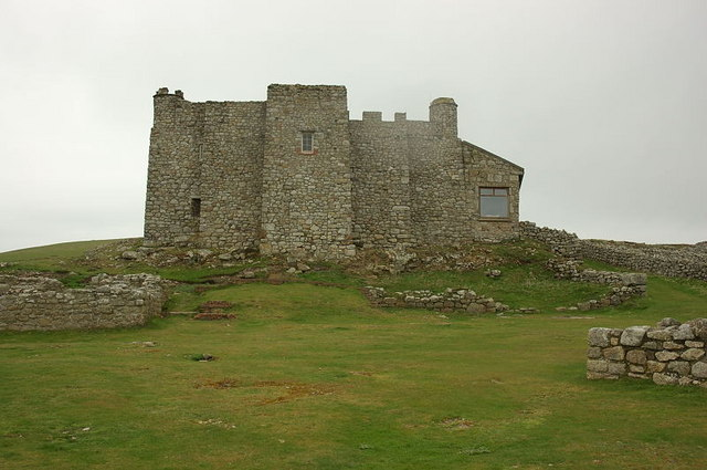 Marisco Castle Keep This castle is divided into 4 holiday cottages